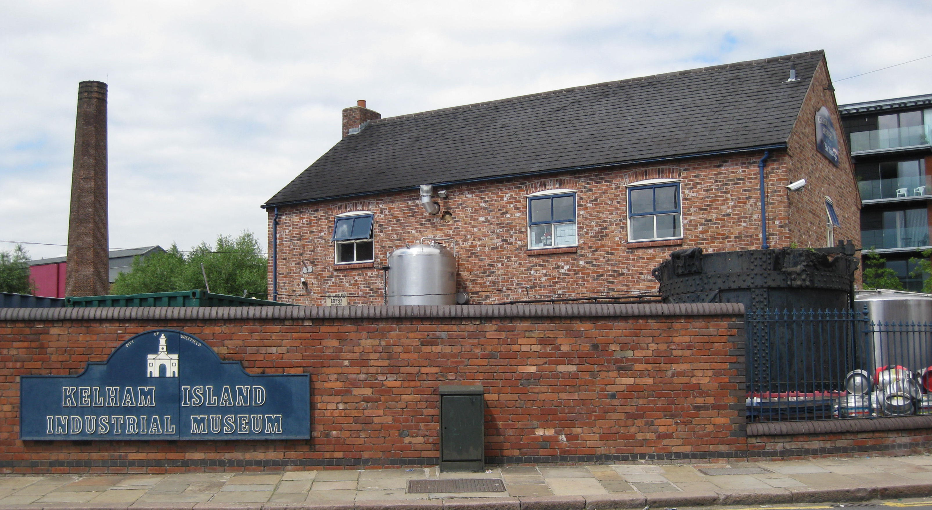 Kelham Island Brewery, 23 Alma Street, Sheffield, S3 8SA. A microbrewery.